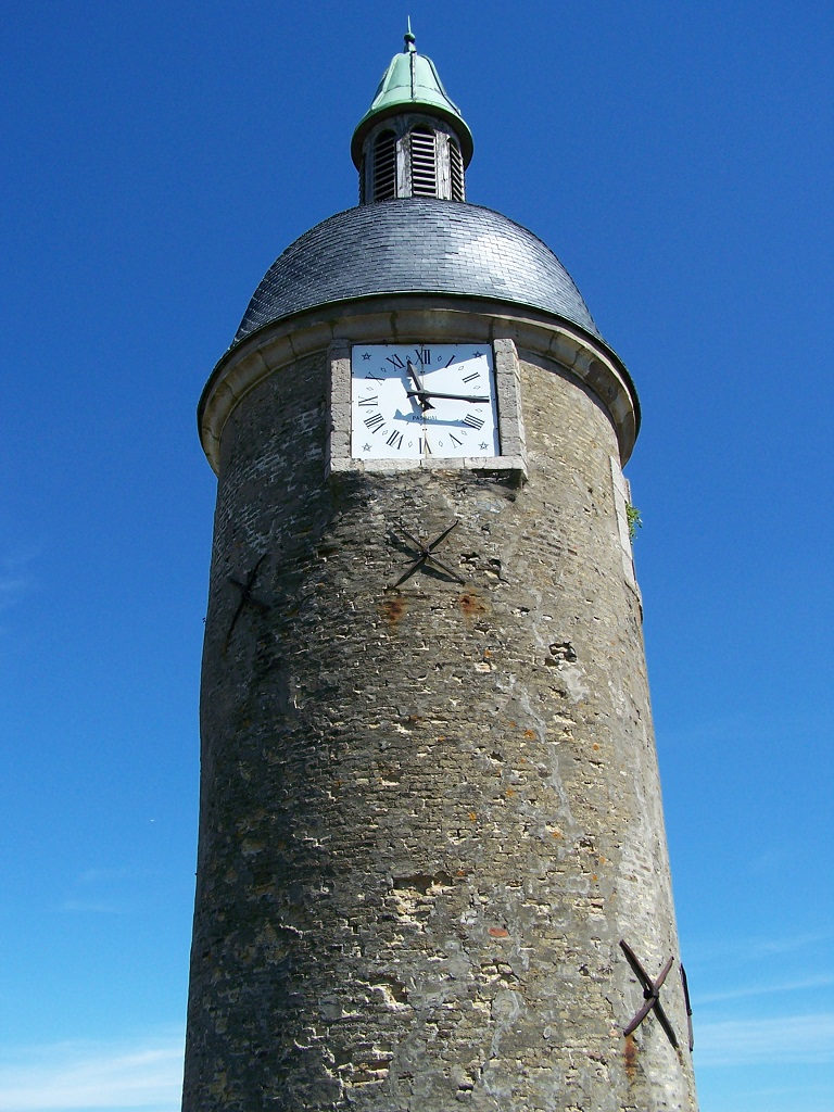 Clock Tower of Guînes